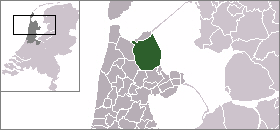 Locator map of Dutch municipalities in Noord-Holland (LocatieWieringermeer.png)